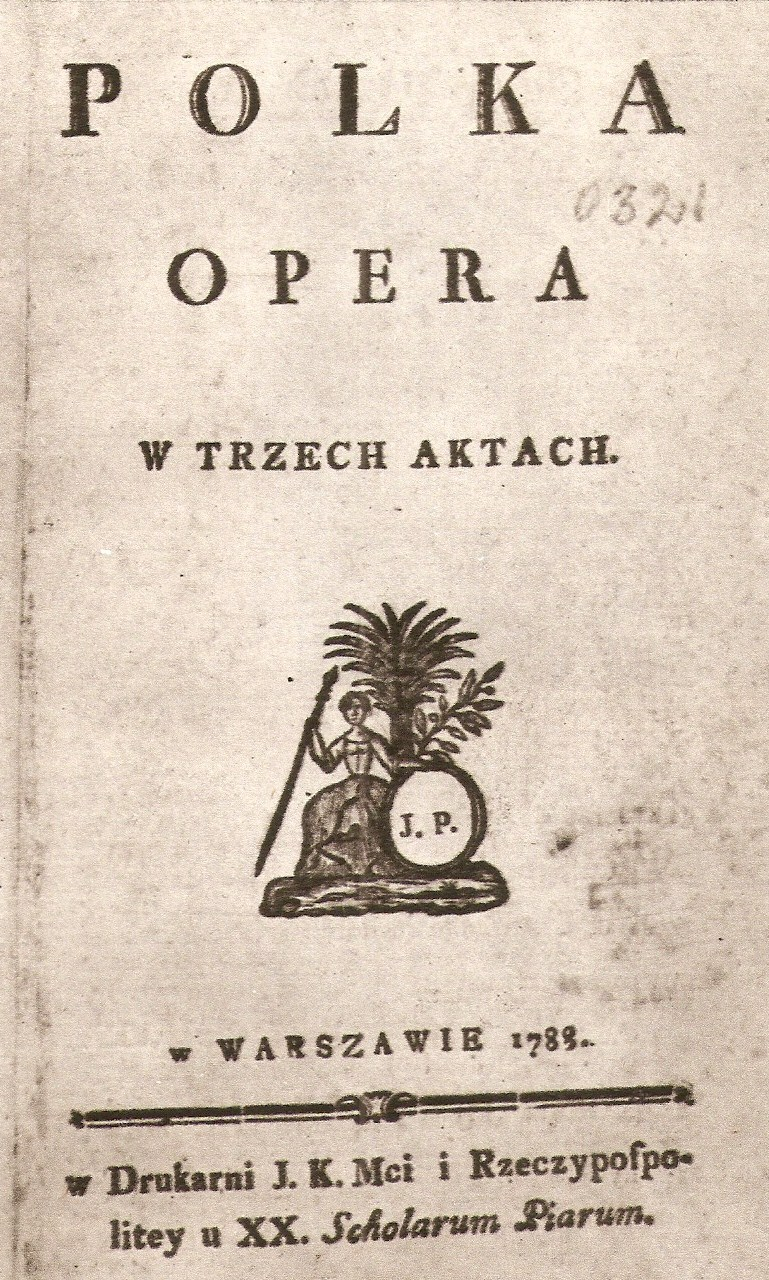 Józef Wybicki, "Polka"